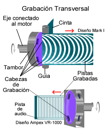 Transverse Method recording, is the design of the two variants of the first model Mark I and MarkIV (last one commercially ly known like VR-1000) antecedent of the Helical Recording Method. The vertical plans in the magnetic tape can be appreciated.